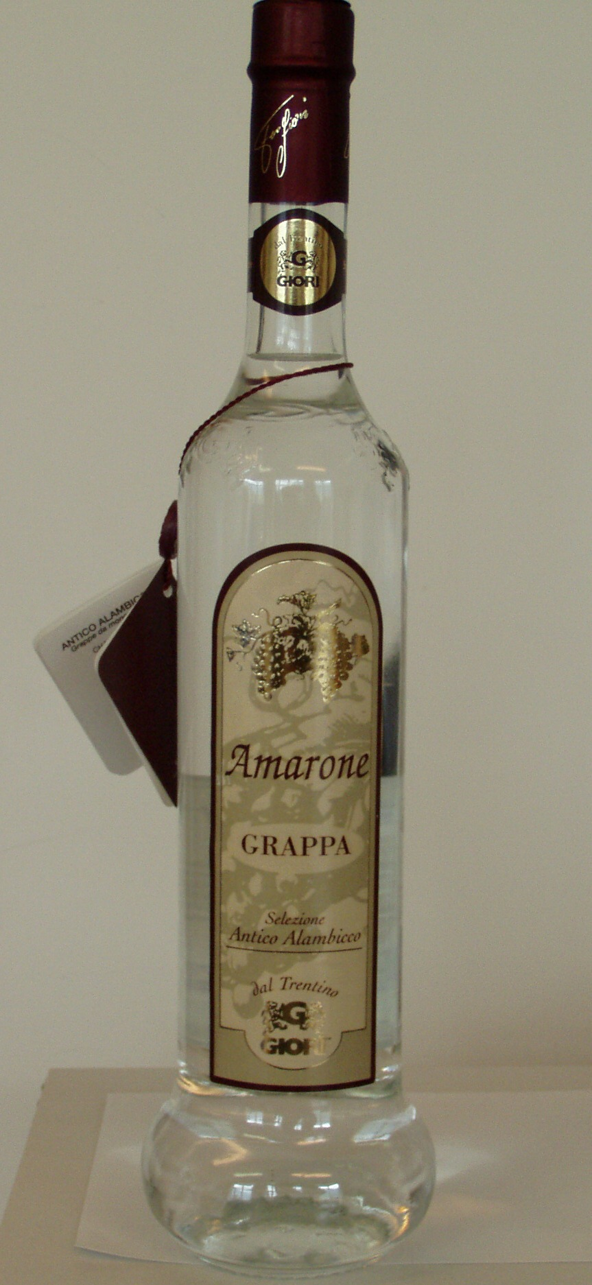 Grappa amarone bottle